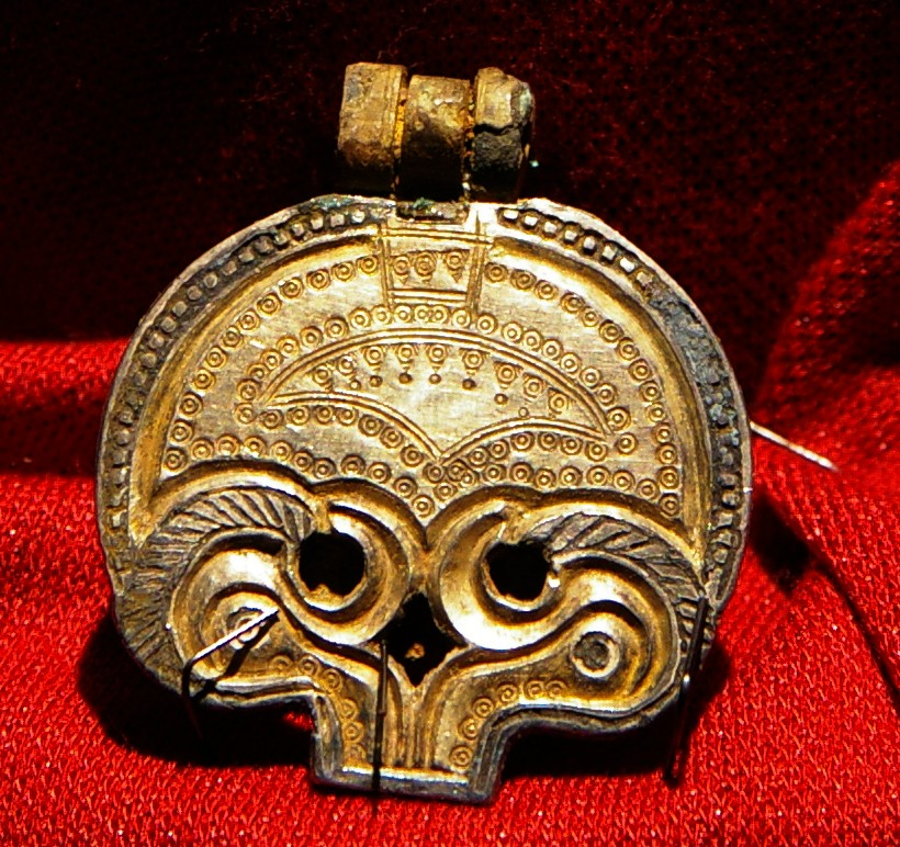 A golden Migration period object belonging to a warhorse from around 500 AD. It was found at an excavation of the Finnestorp sacrificial bog where the brook Katebrobäcken joins the river Lidan. The sacrificial place is situated on the border between the parishes Larv and Trävattna, the hundreds Laske and Vilske, and the municipalities Vara and Falköping, in the middle of Västergötland in Sweden.